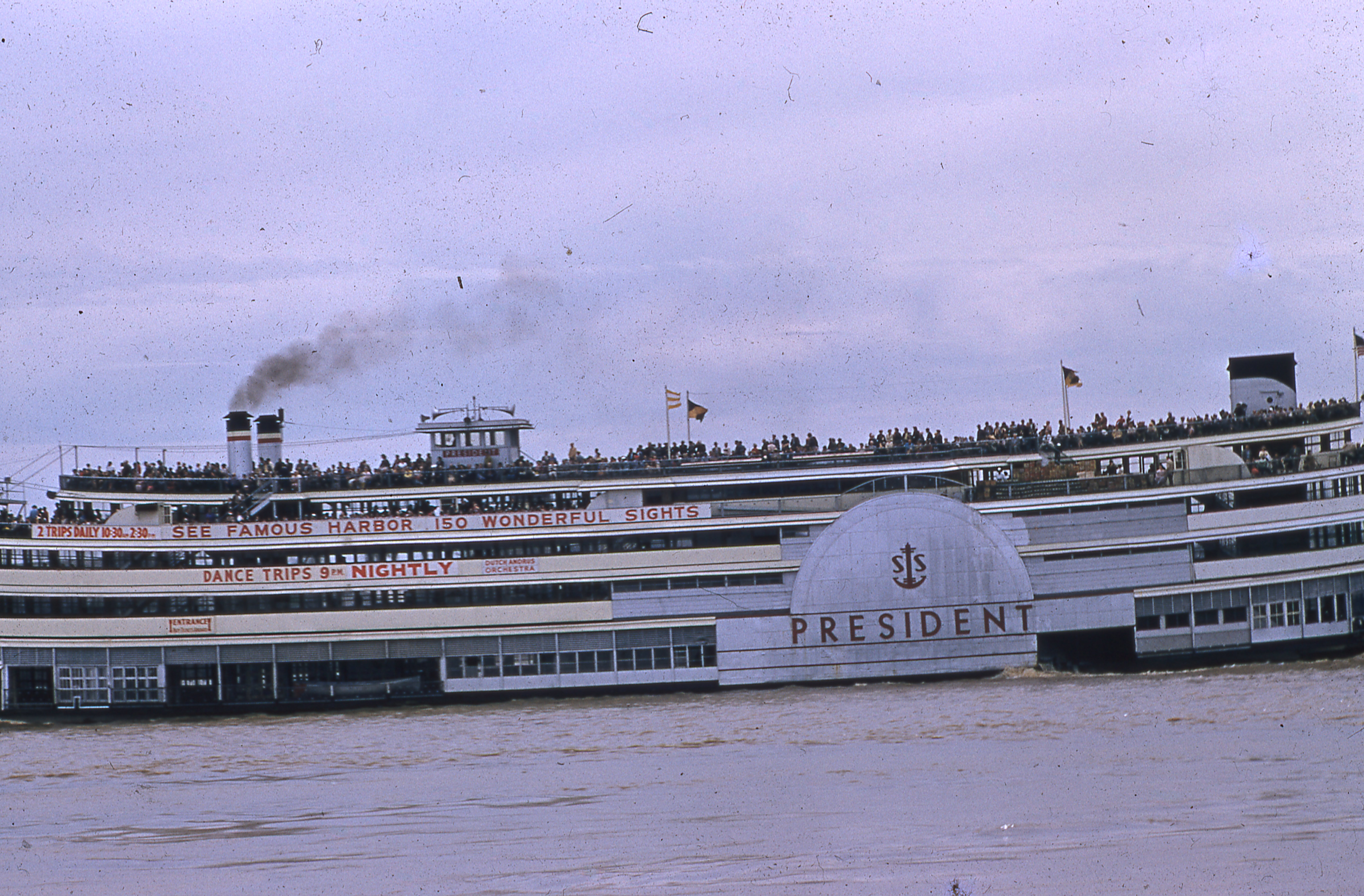 Photo by Robert M. Fuller - most likely circa mid-1950s in St Louis, MO. Sign indicates the Dutch Andrus (1912-1989) Orchestra plays for the nightly 9pm Dance Trips, as well as another sign that indicates there are two trips daily at 10:30am and 2:30 pm.